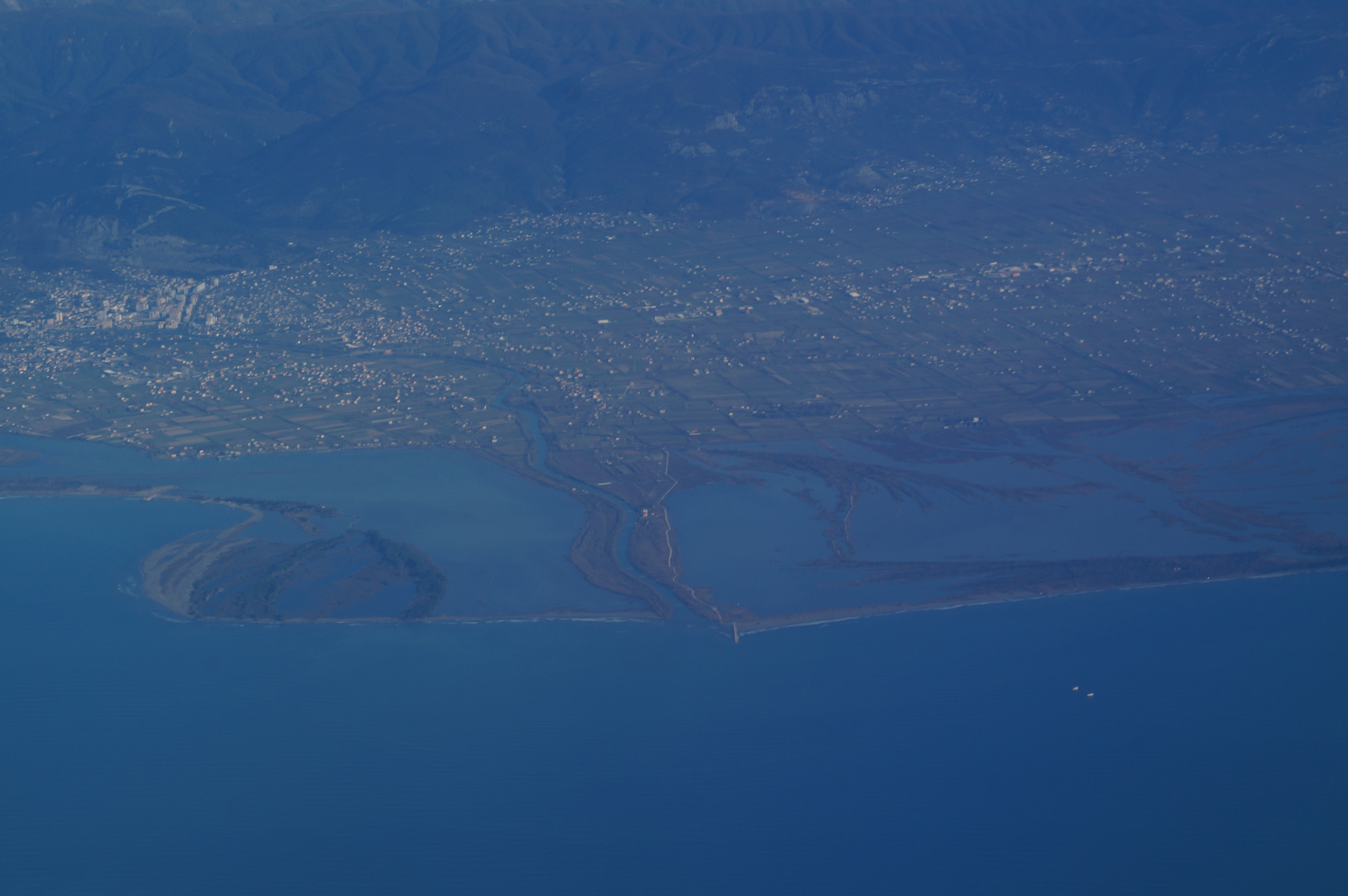 The mouth of the Old Drin River in Lezha with the surrounding lagoons